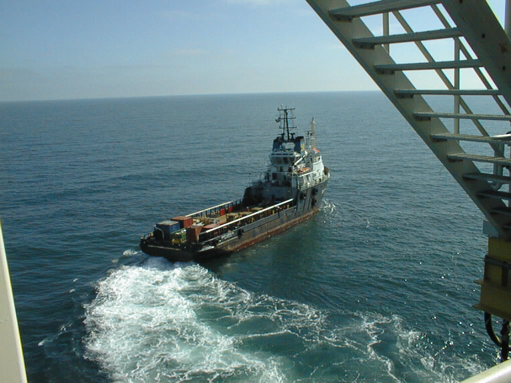 Supply boat at platform K6P.